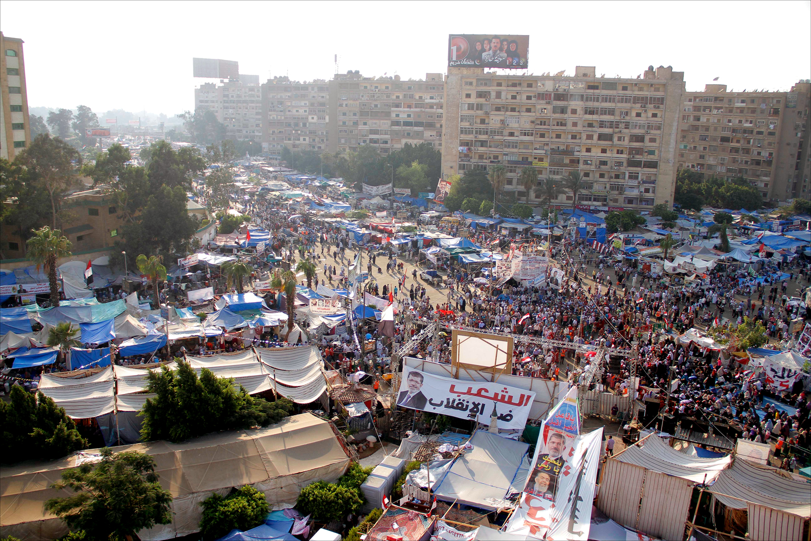 Original description: "The area around the Rabaa Adiweya mosque has been packed with Muslim Brotherhood supporters sleeping in tents for over a month. Families bring children to protect them from the police forcibly dismantling the sit-in. (H. Elrasam for VOA)"